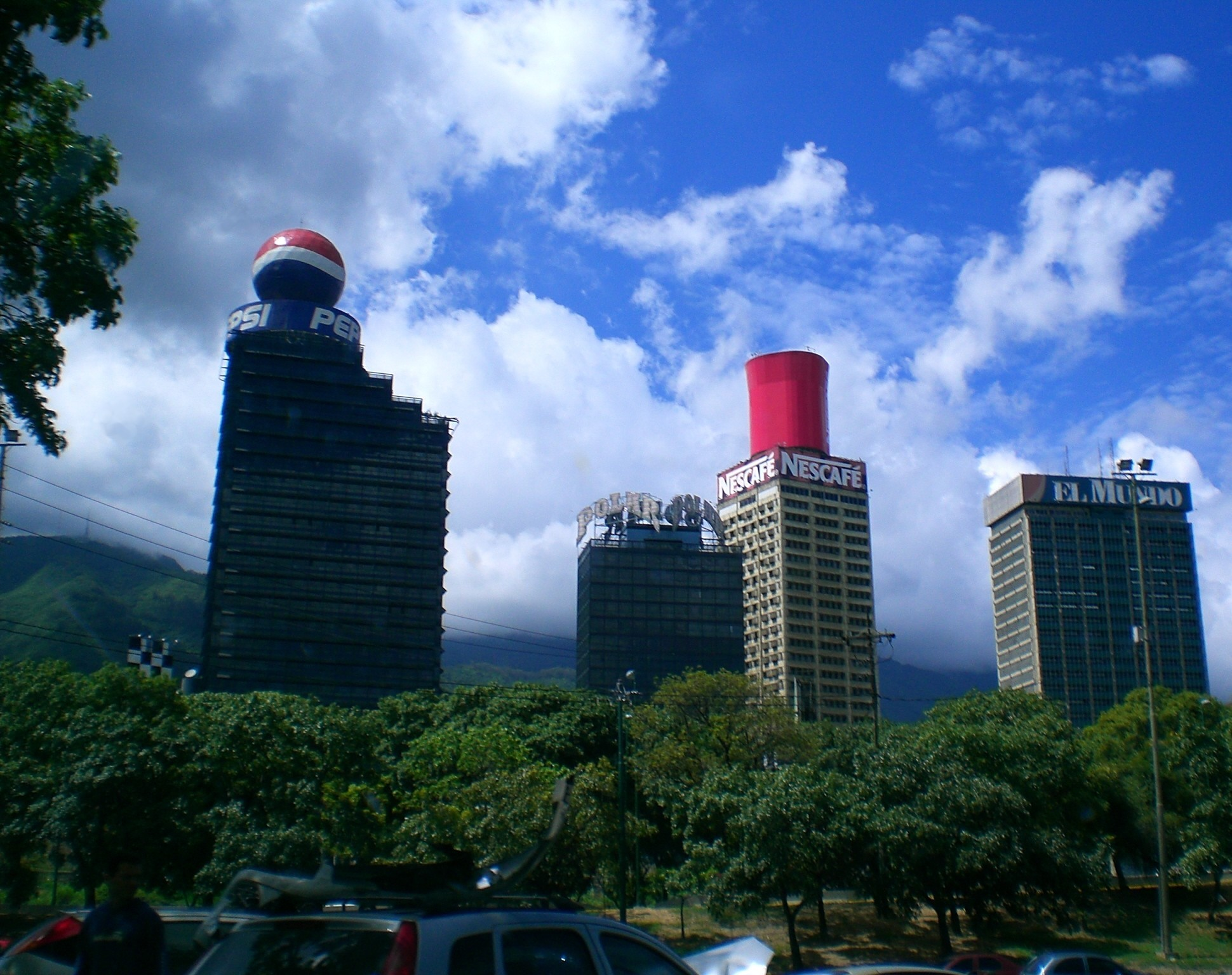 Three emblematic buildings of Caracas, Venezuela